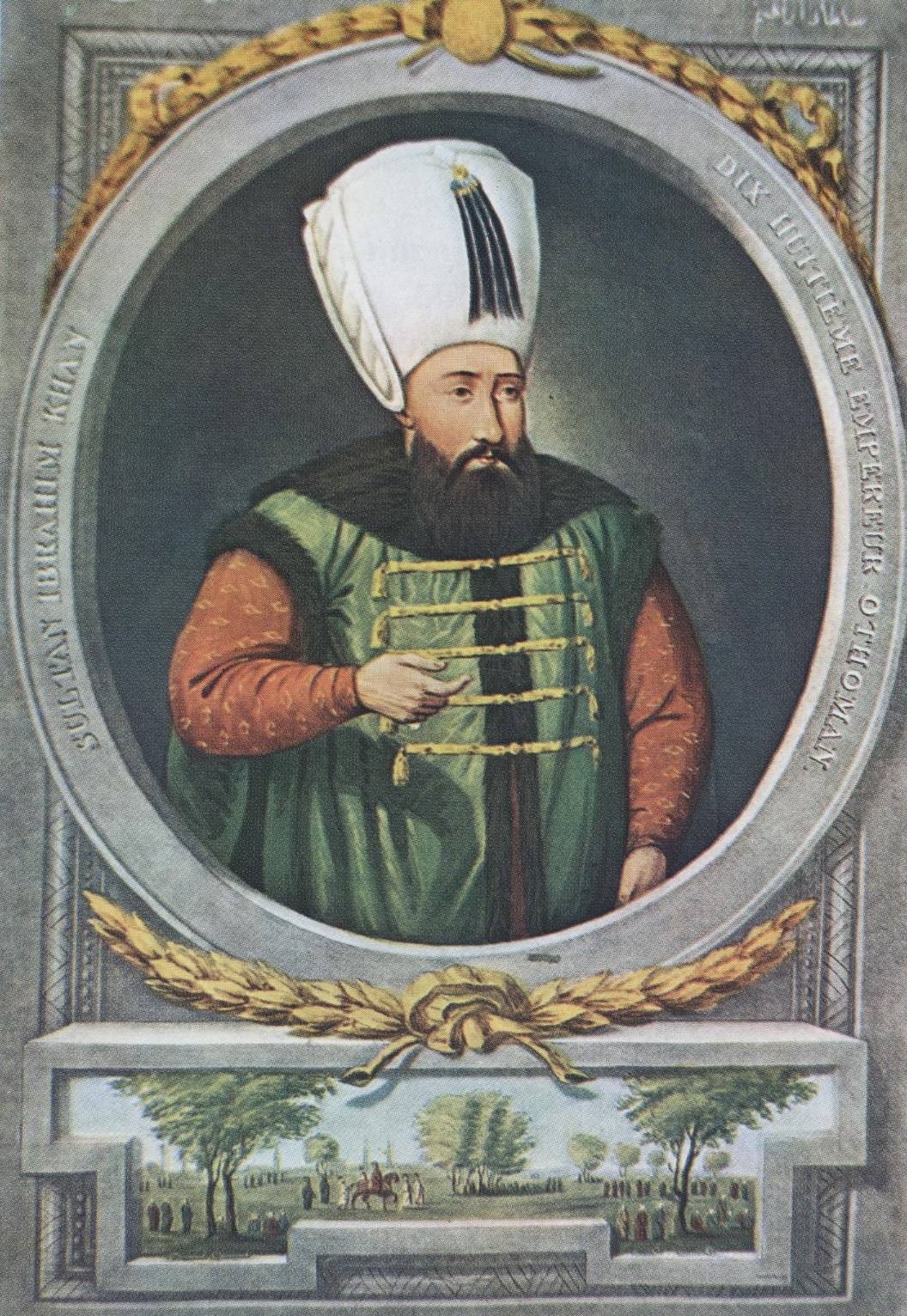 Ibrahim I of the Ottomans